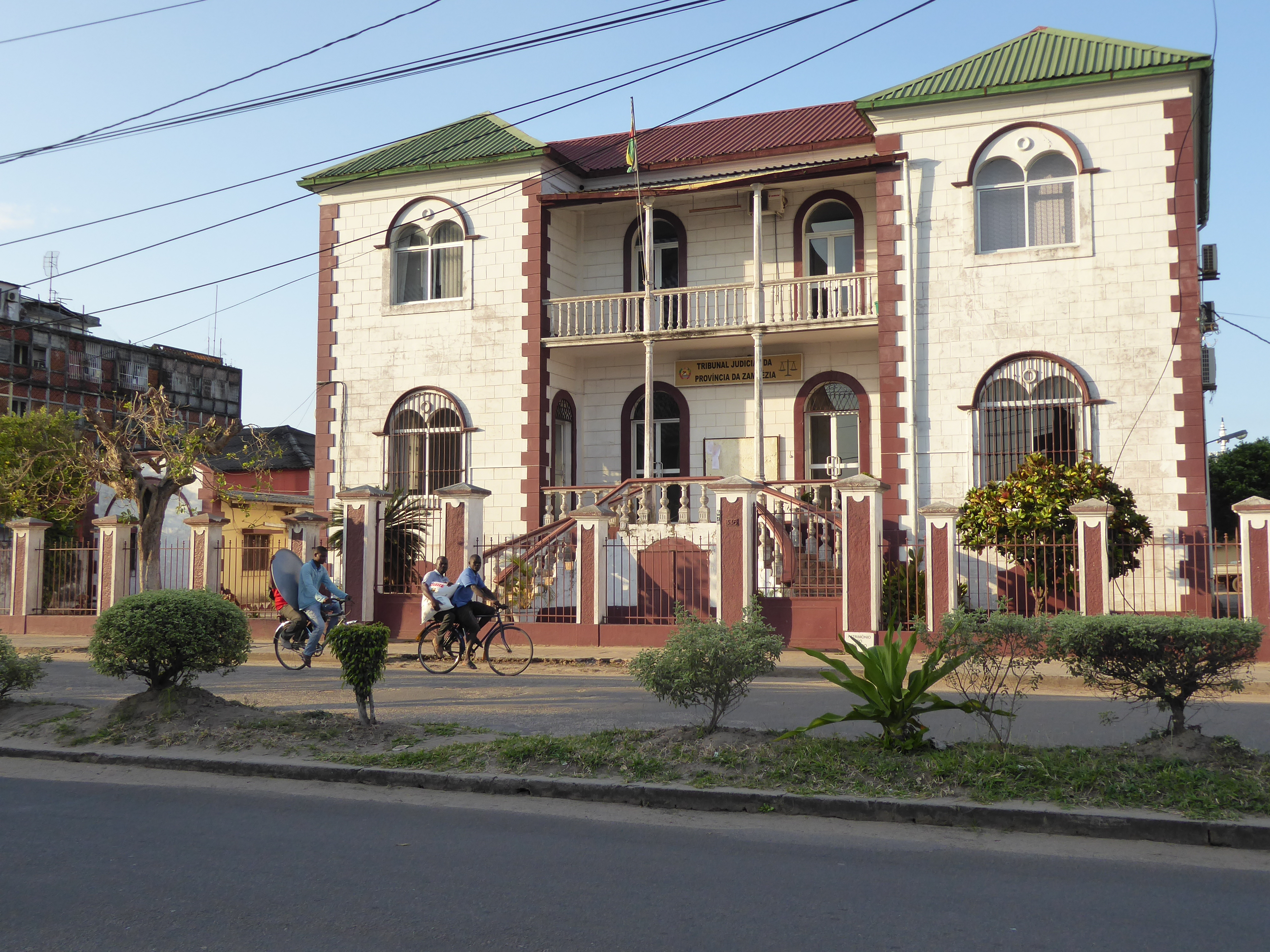 Provincial Court of Zambézia, Quelimane, Mozambique